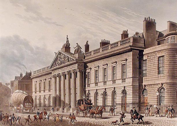 East India House in Leadenhall Street, London as drawn by Thomas Hosmer Shepherd, c.1817.